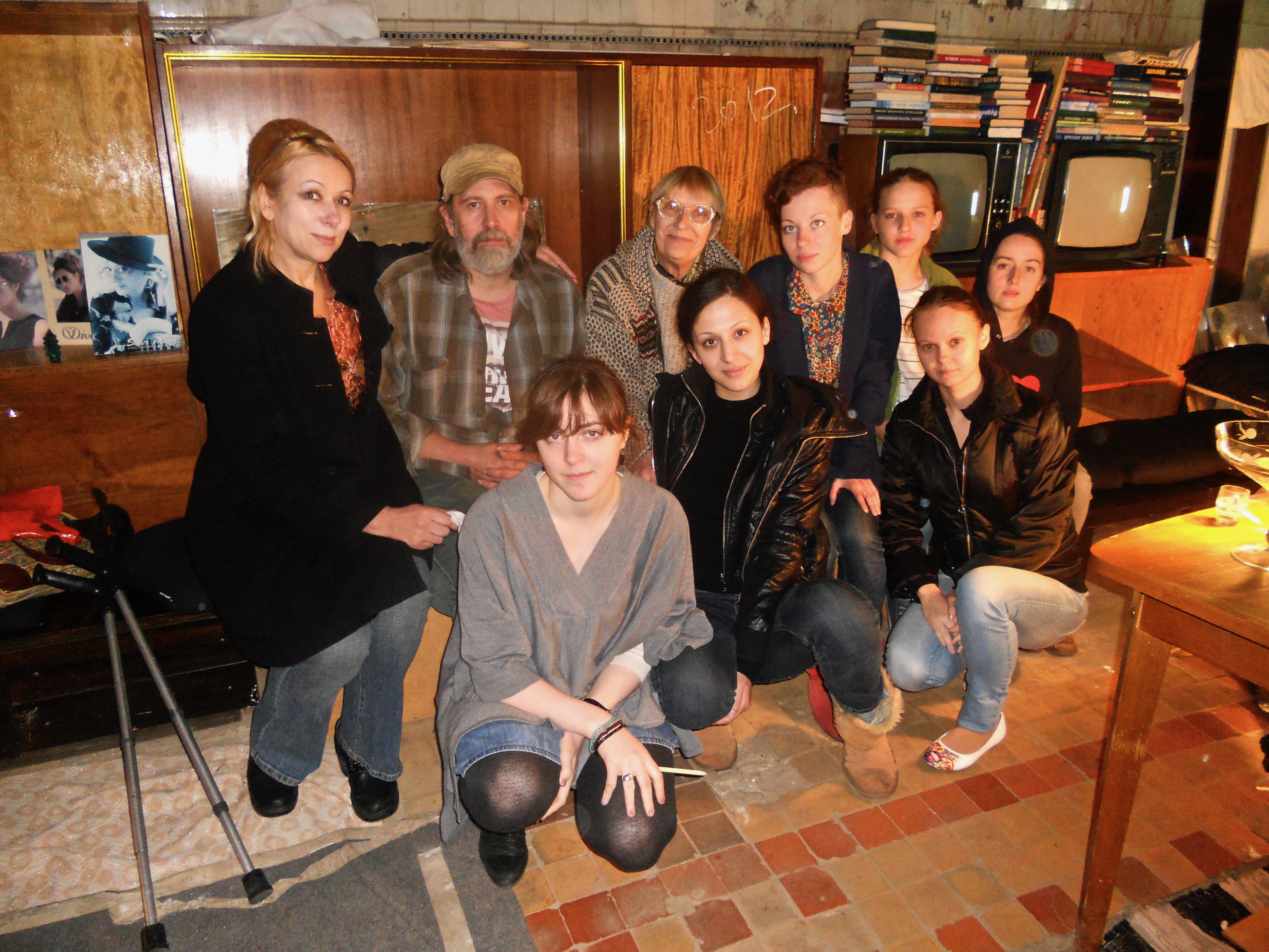 Participants of the play "Gerontophobia" together with the author of the play play playwright Vadim Levanov. Directed By Evgenia Berkovich. Actors: Ian Irtenyev, Galina Maracheva, Oksana Mysina,Varvara Nazarova, Andrei Saveliev, Sergei Sazontyev, Alexander Tsoy. Large wine storage, center for contemporary art "Vinzavod", Moscow, Russia. May 18, 2011.